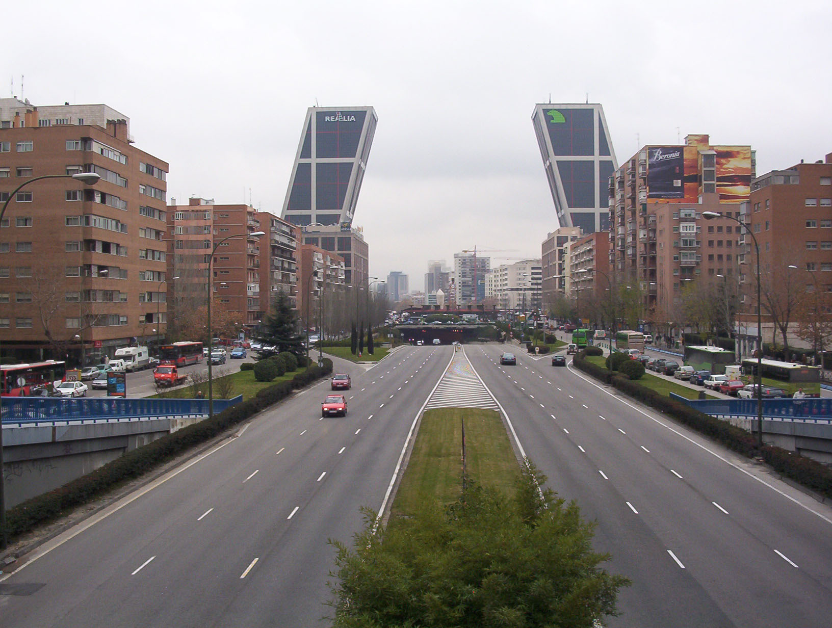 Paseo de la Castellana (avenue) in Madrid (Spain). In the background, the Puerta de Europa ("Gate of Europe").